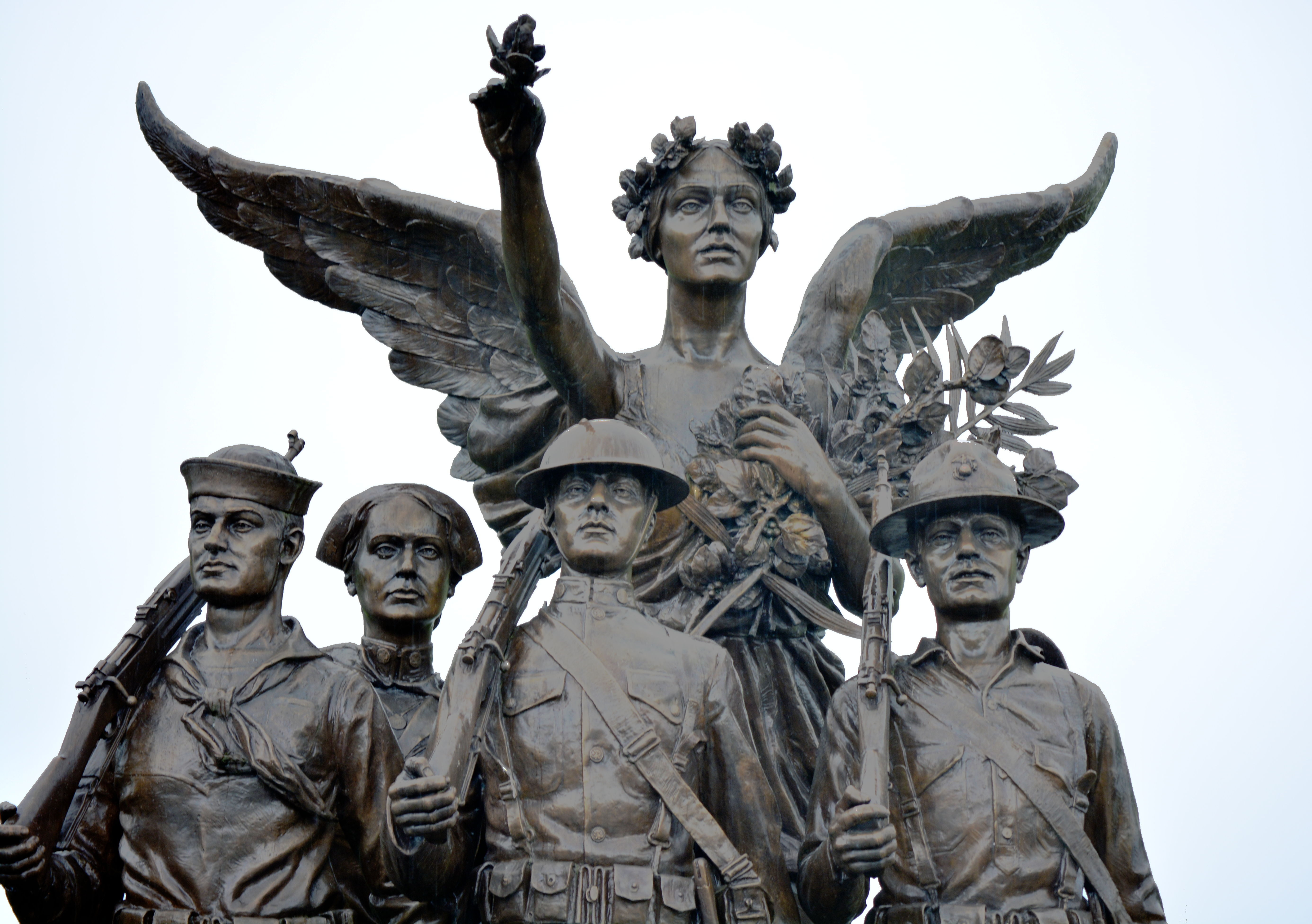 Detail, Winged Victory by Alonzo Victor Lewis, Washington State Capitol complex, Olympia, Washington.